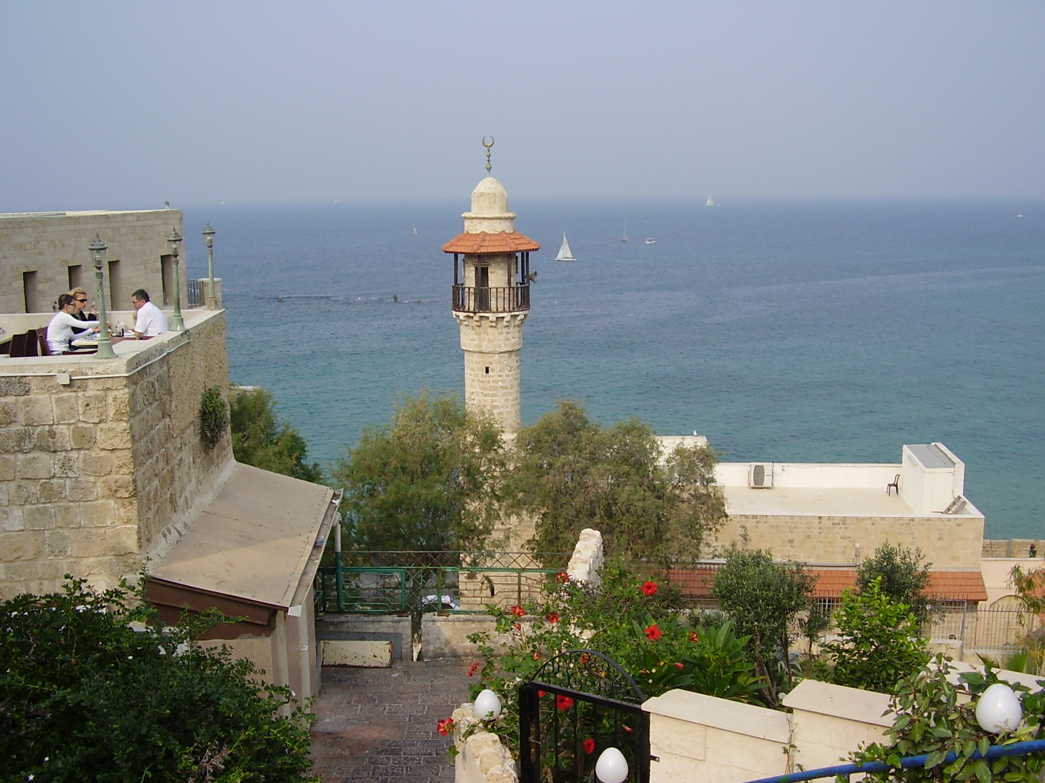 sea mosque in jaffa מסגד הים ביפו על רקע הים